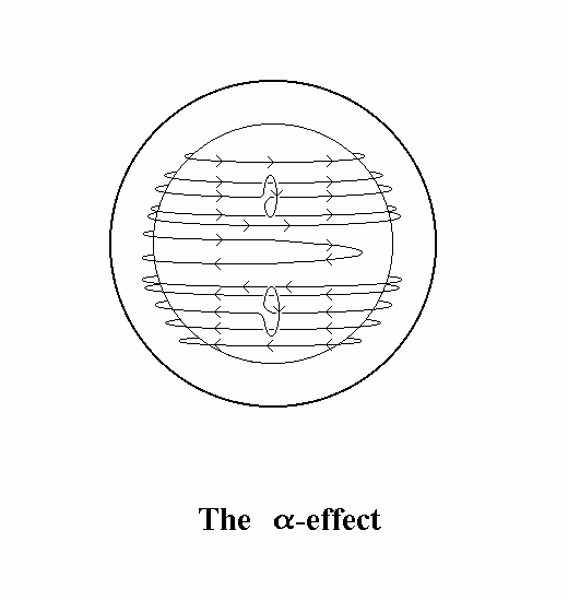 Twisting of the magnetic field lines is caused by the effects of the Sun's rotation.